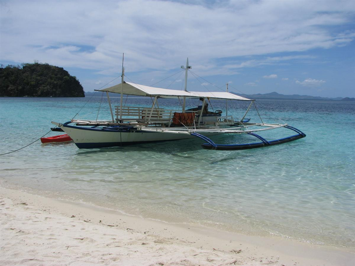 Traditional Philippine boats commonly called banca.